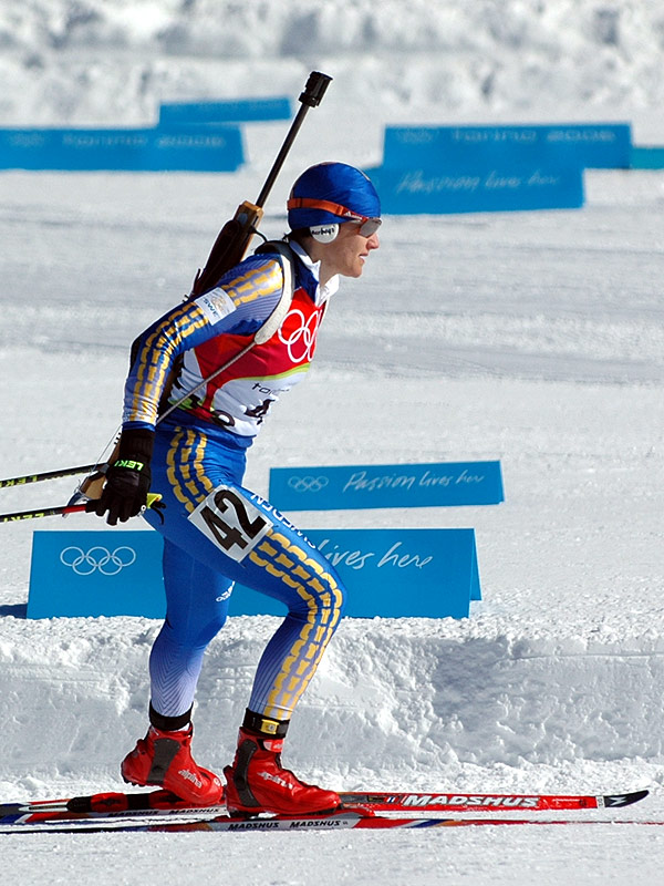 Anna Carin Olofsson at the 2006 Winter Olympics in Torino.